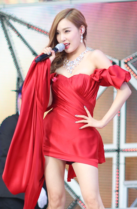 Tiffany during SM Town Live, 15 August 2014